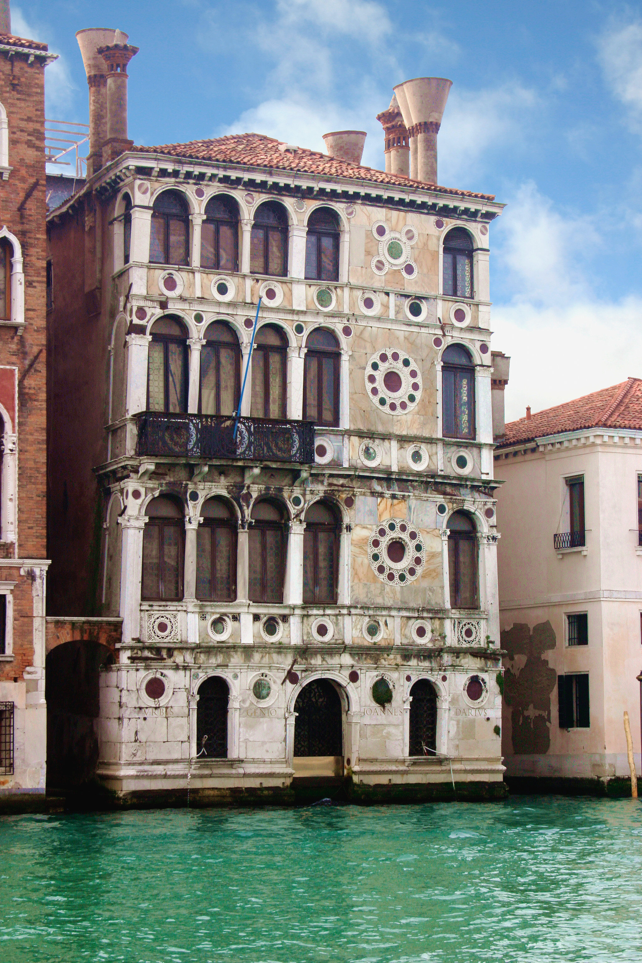 Venice - Dario’s Palace on the Grand Canal